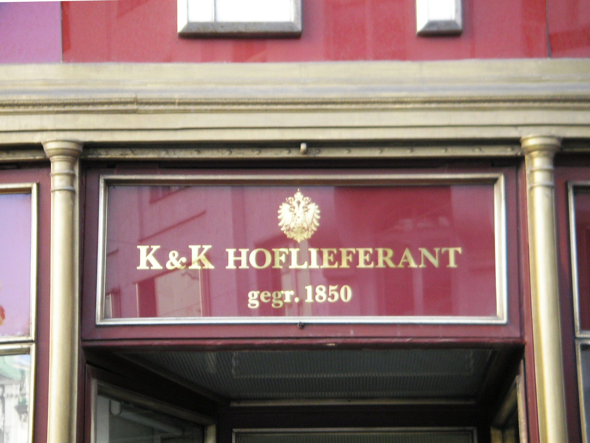 Image of a k.u.k. Hoflieferant plaque Rudolf Waniek KG store at the Hoher Markt 5 square in Vienna's first district Innere Stadt.